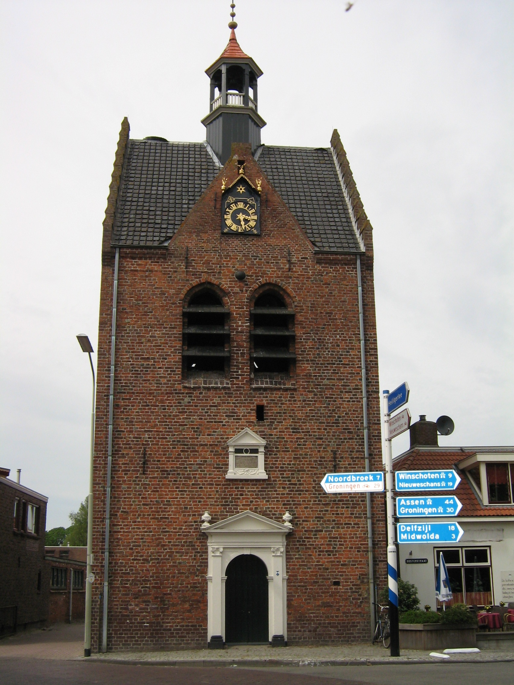 Tower of Scheemda, the Netherlands